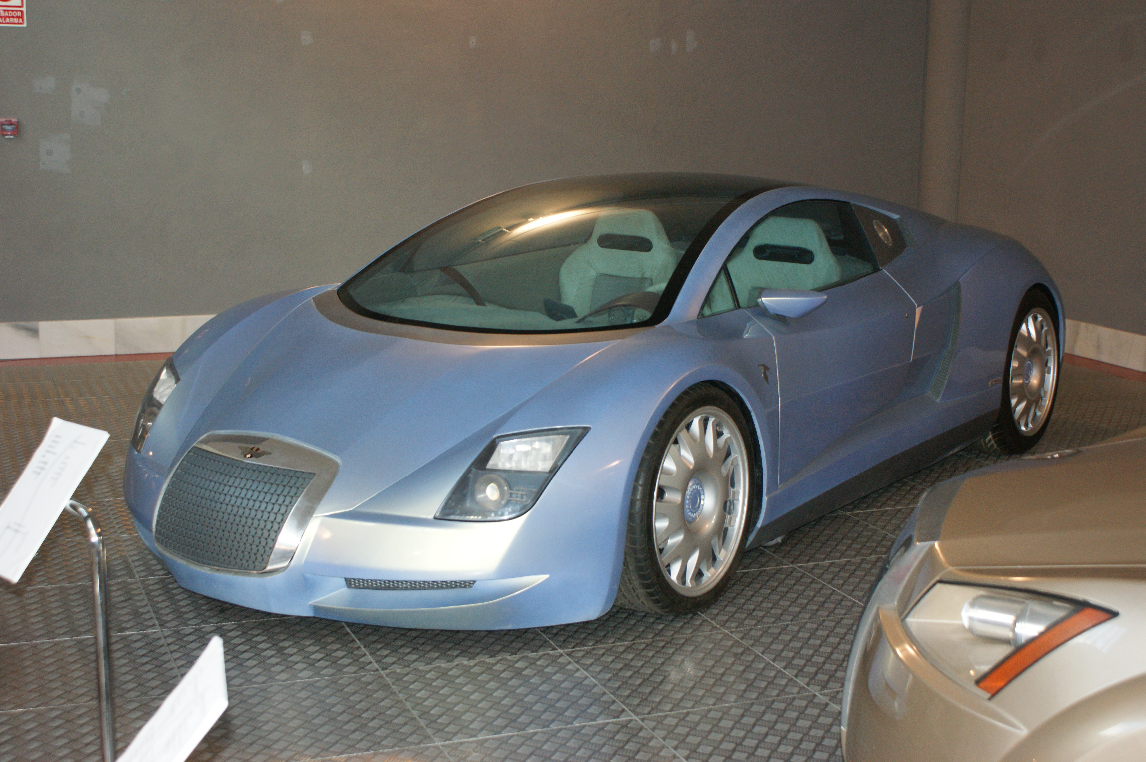 2000 Hispano-Suiza HS-21, 5 litres, at the Salamanca Motor Museum, 04/08.